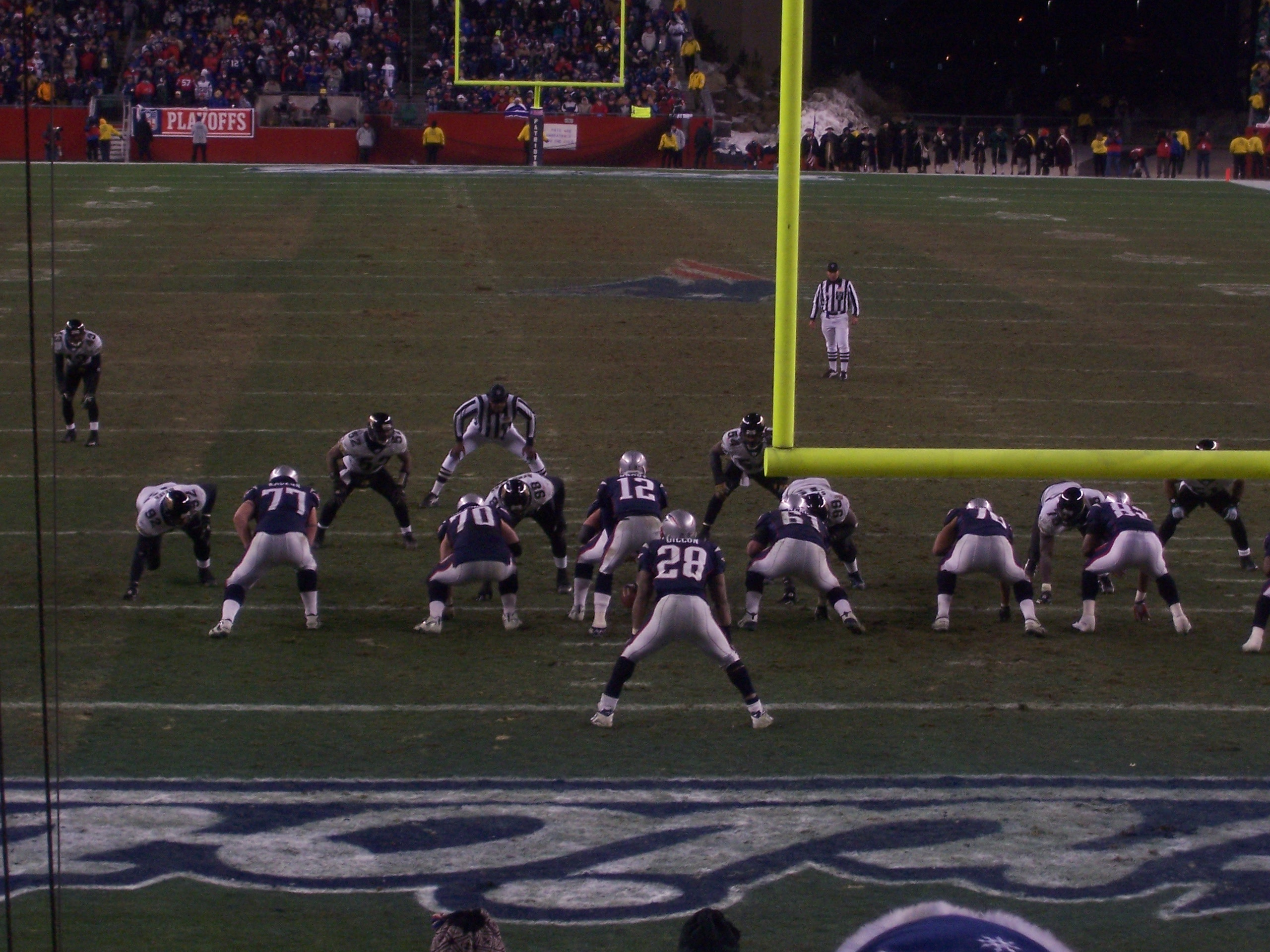 The New England Patriots' offense on the field against the Jacksonville Jaguars in a 2005-06 NFL Wild Card Playoff game.